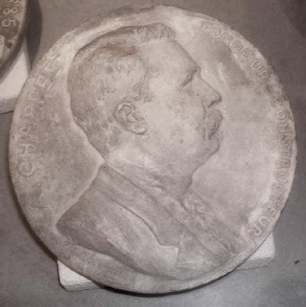 Medallion of the industrialist Armand Chappée